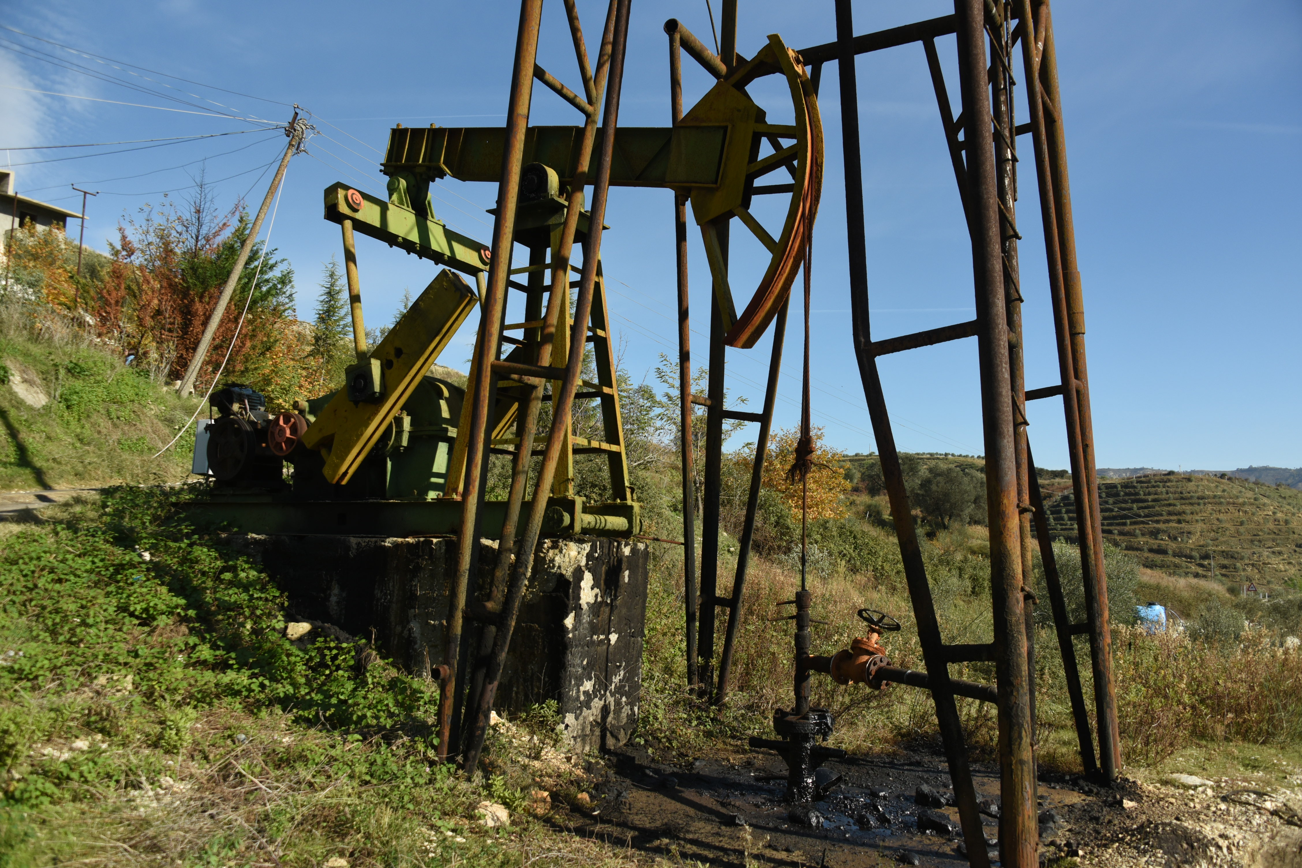 Puits à pétrole au sud de Berat, en Albanie